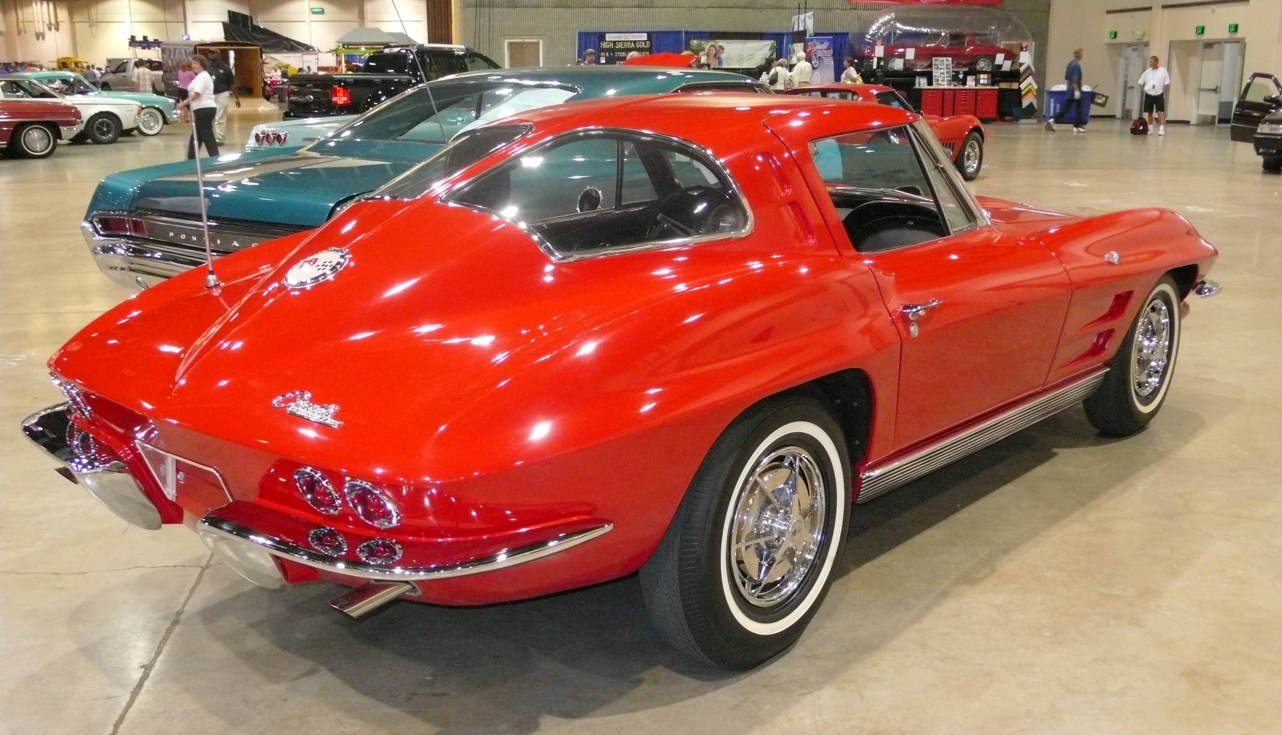 1963 Corvette split-window coupe at custom car auction, Reno, Nevada, USA